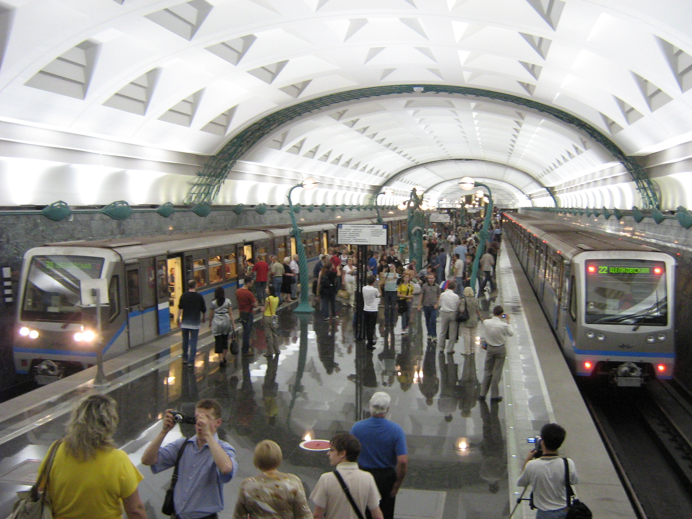 Two Rusich trains at Slavyansky Bulvar - Moscow metro station opened 7.09.2008